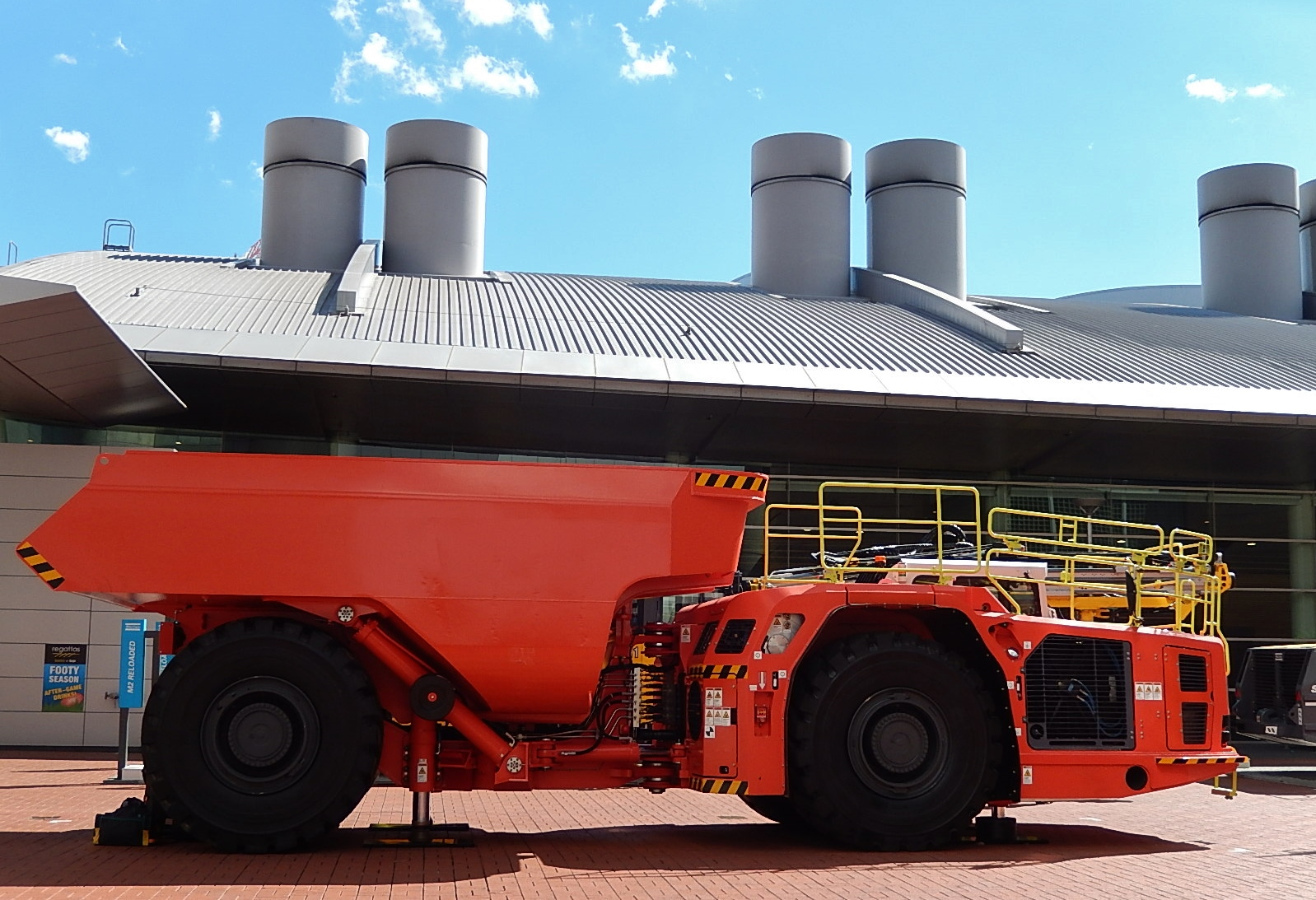 Mining dump truck in Adelaide Central, Adelaide.